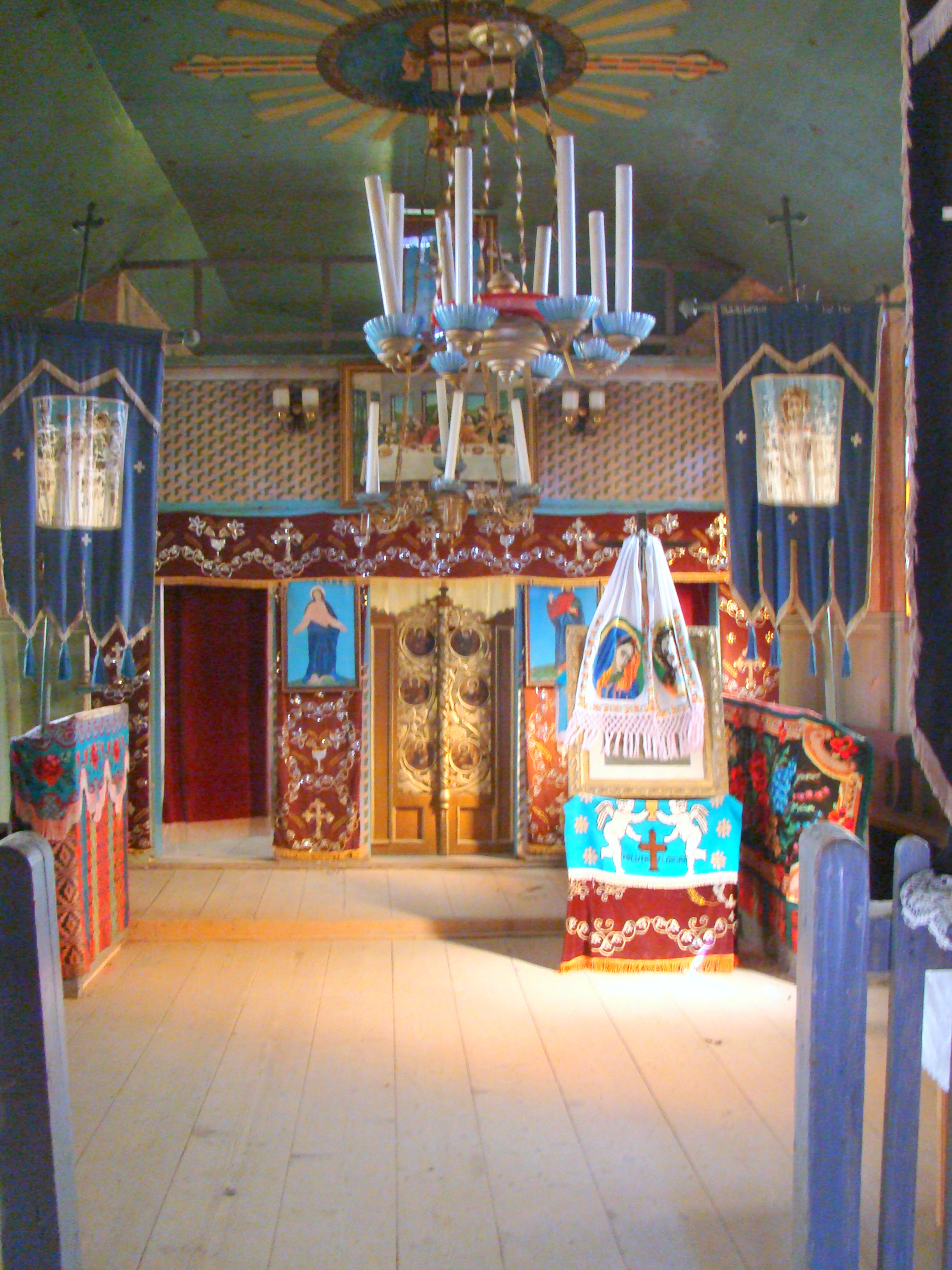 Wooden church in Vermeș, Bistrița-Năsăud county, Romania